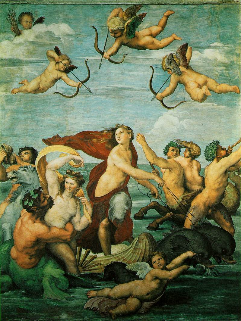 „Galatea“ by Raphael